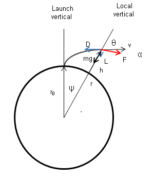 A diagram of velocity, position, and force vectors during a rocket launch from a spherical body such as Earth.